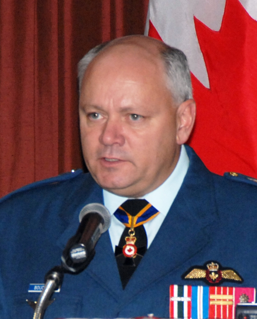 Lt. Gen. Charlie Bouchard, deputy commander of NORAD, addresses Canadian military and WW II veterans during a Battle of Britain commemoration ceremony at the Retired Enlisted Association in Colorado Springs, Colo.